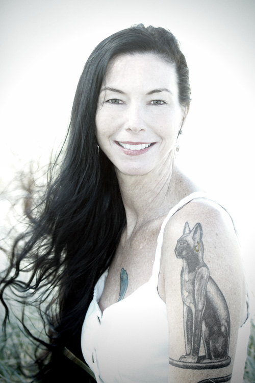 Head shot taken for first novel release in 2009.